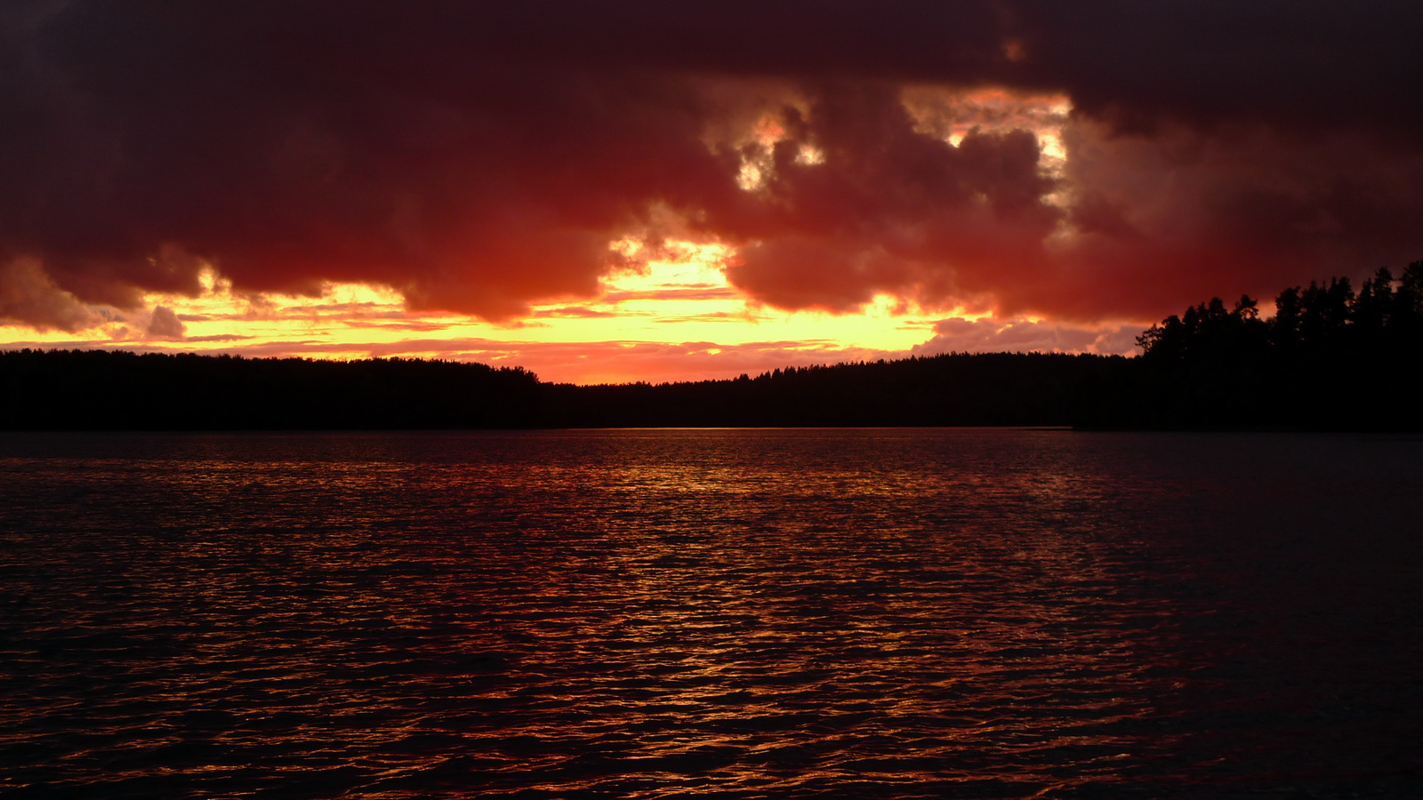 Razdolinskoe lake at Sosnovo